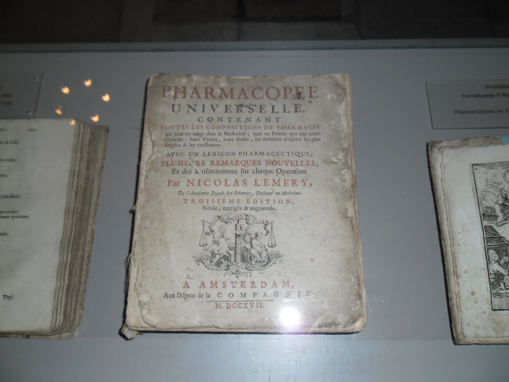 Pharmacopée universelle by Nicolas Lemery (1728), as shown in the Franciscan pharmacy, Dubrovnik, Croatia